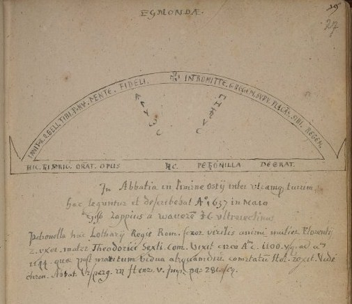 Description of the tympanum of the Egmond abbey transcribed by Gijsbert Lap van Waveren in the Inscriptiones monumentaque in templis et monasteriis Belgicis inventa by Aernout van Buchell.